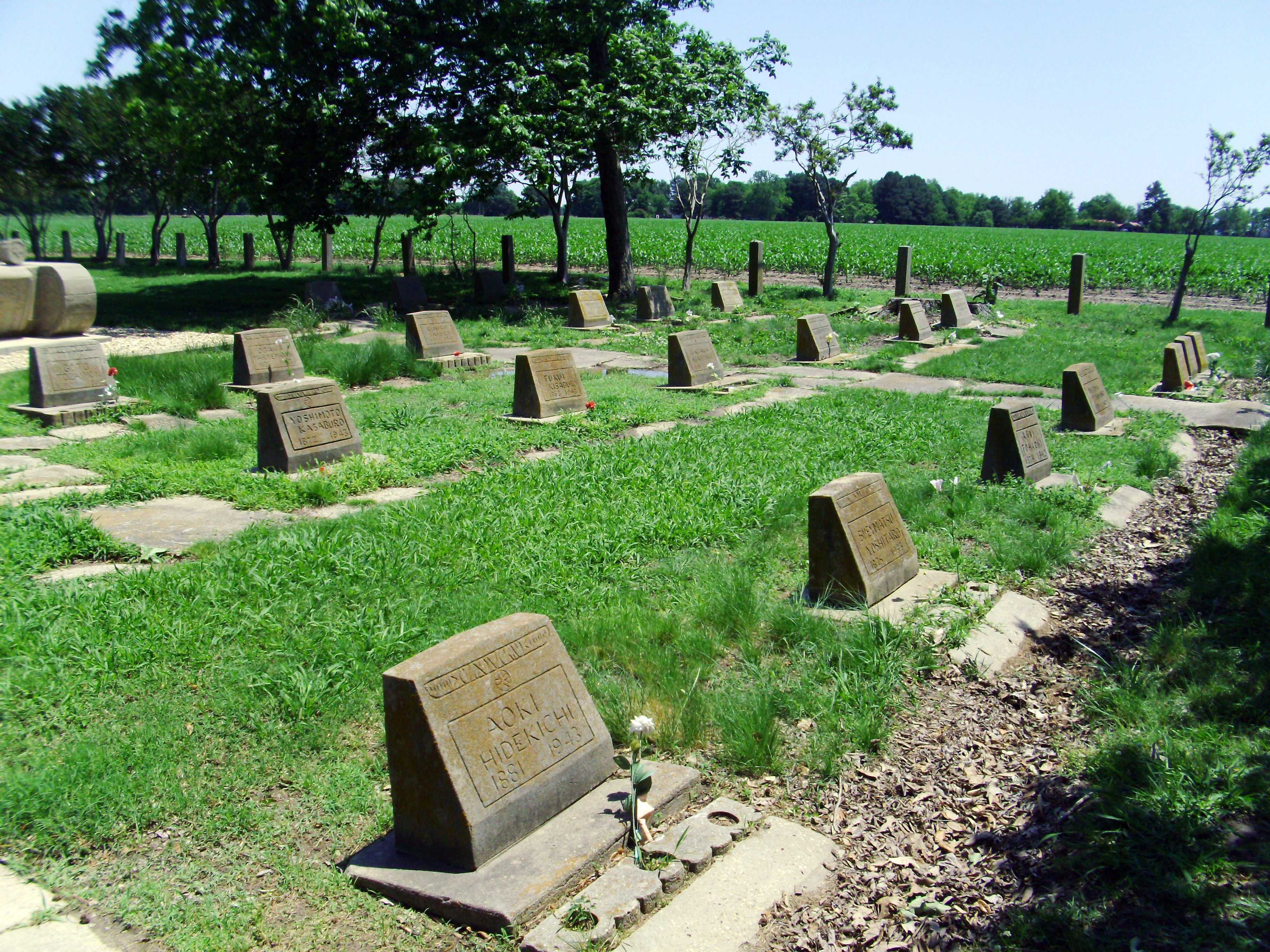 Rohwer War Relocation Center in Rowher, Desha County, AR